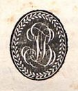 Bettoni's mark